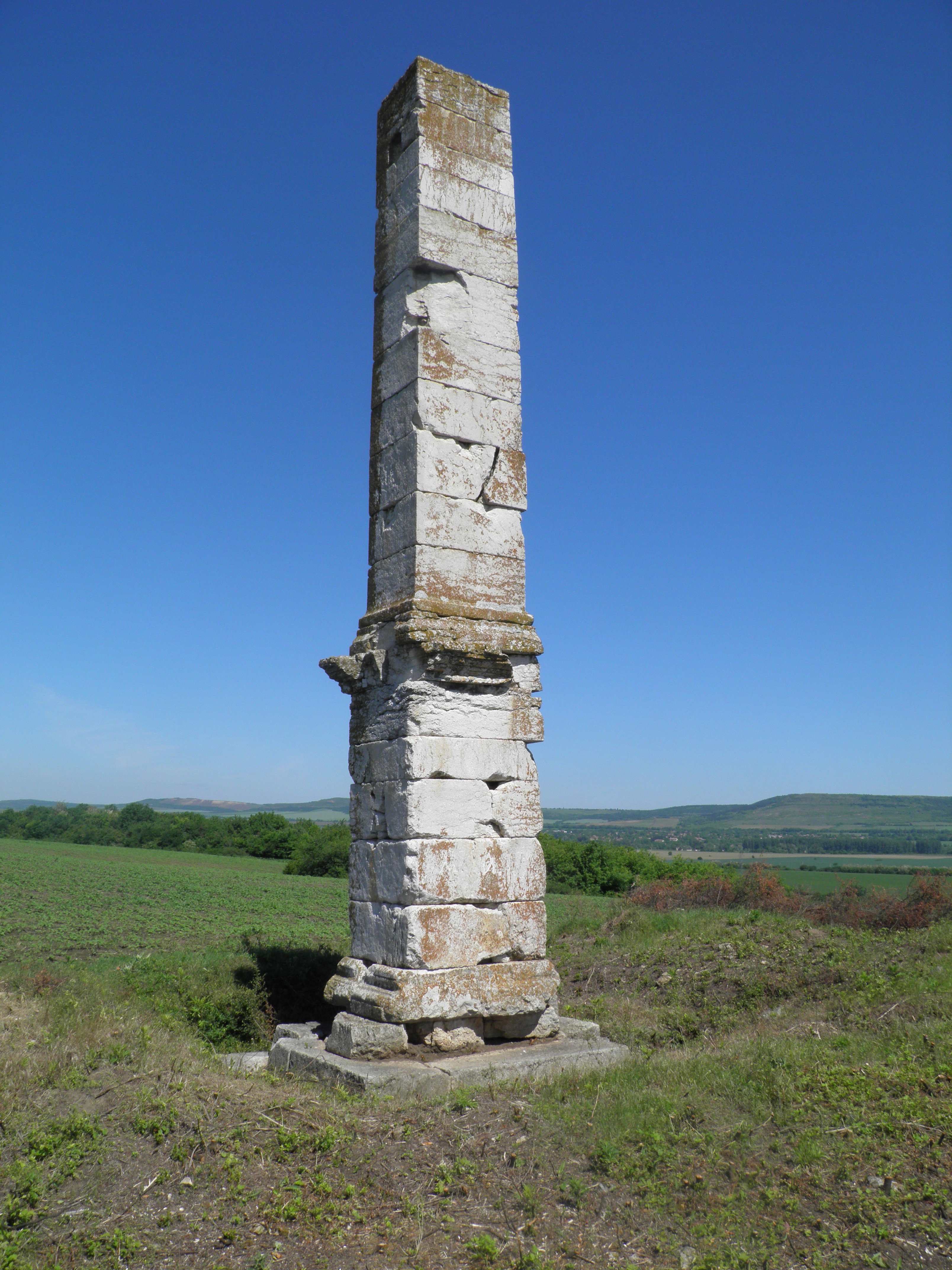 Roman Obelisk,Lesicheri,Bulgaria